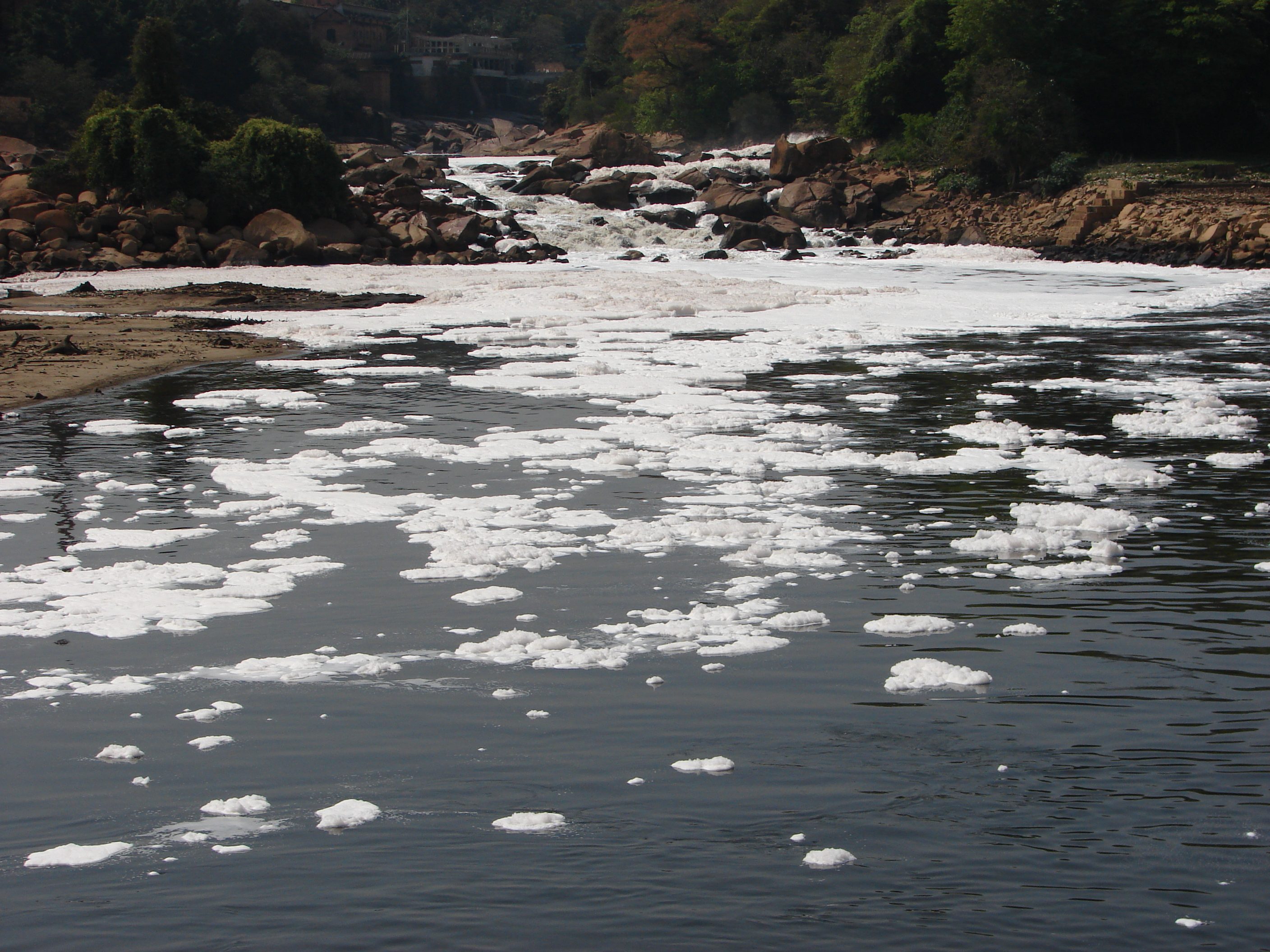 Tietê river at Salto, Brazil. One can see the foam mainly caused by domestic pollutants